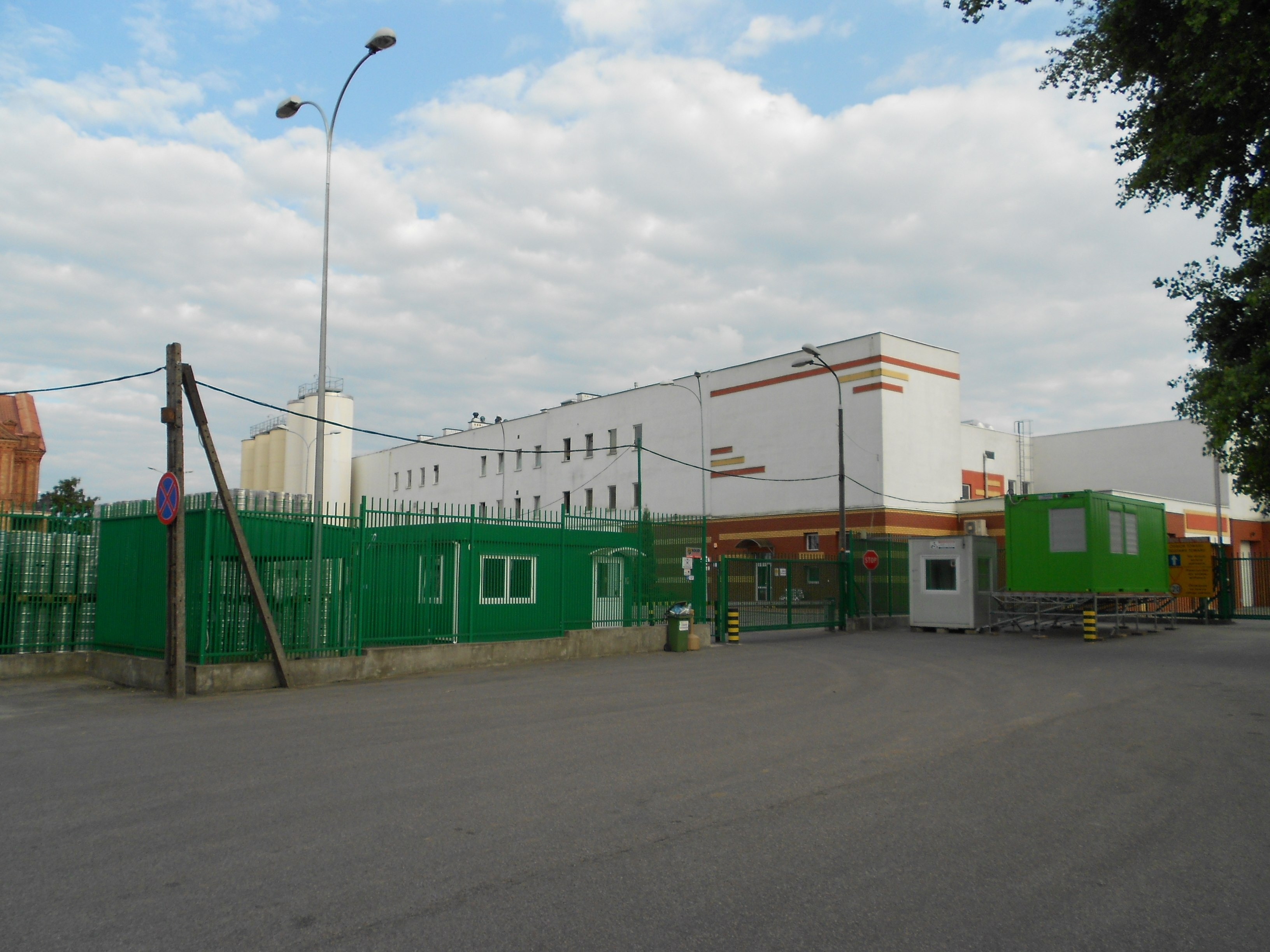 Building of Dojlidy Brewery in Białystok